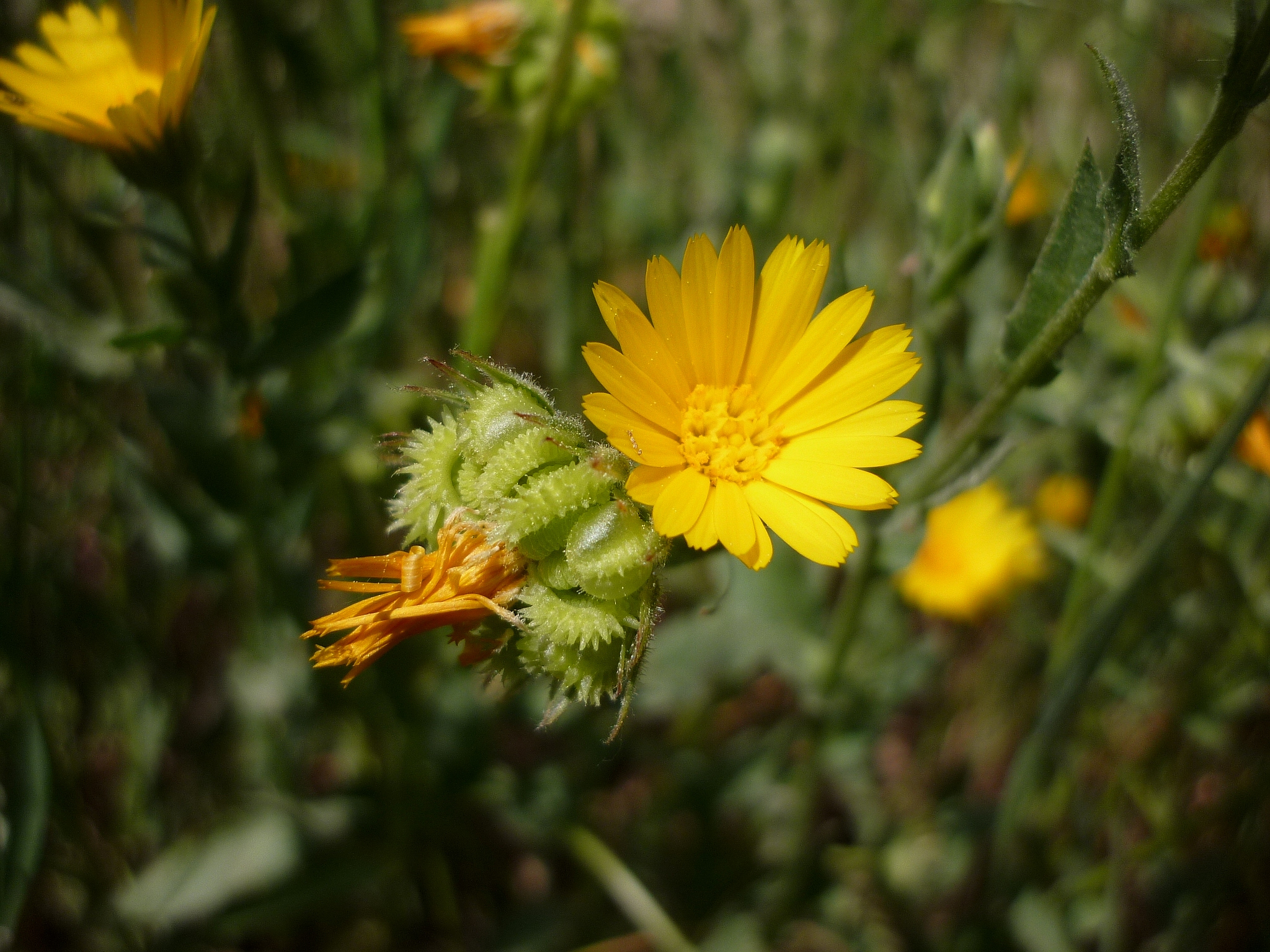 Calendula arvensis. In Torà (Segarra-Catalunya). To 590 m. altitude